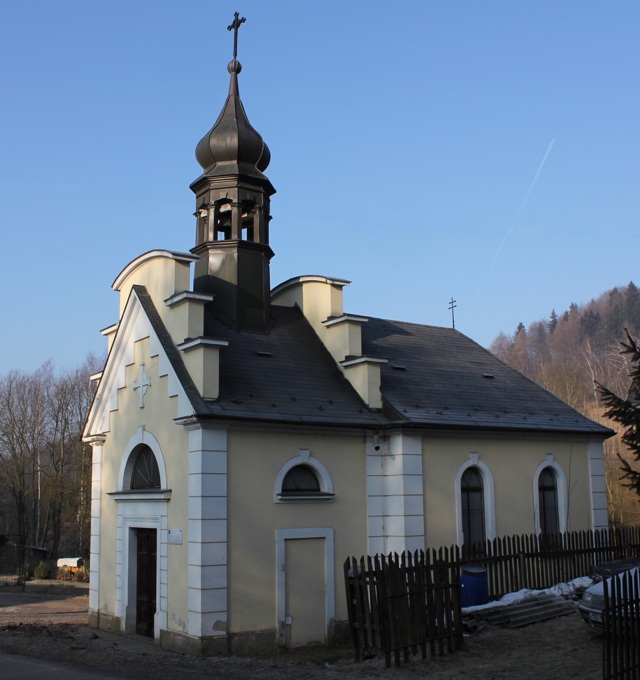 Chapel of Our Lady of Sorrows in Dolní Houžovec